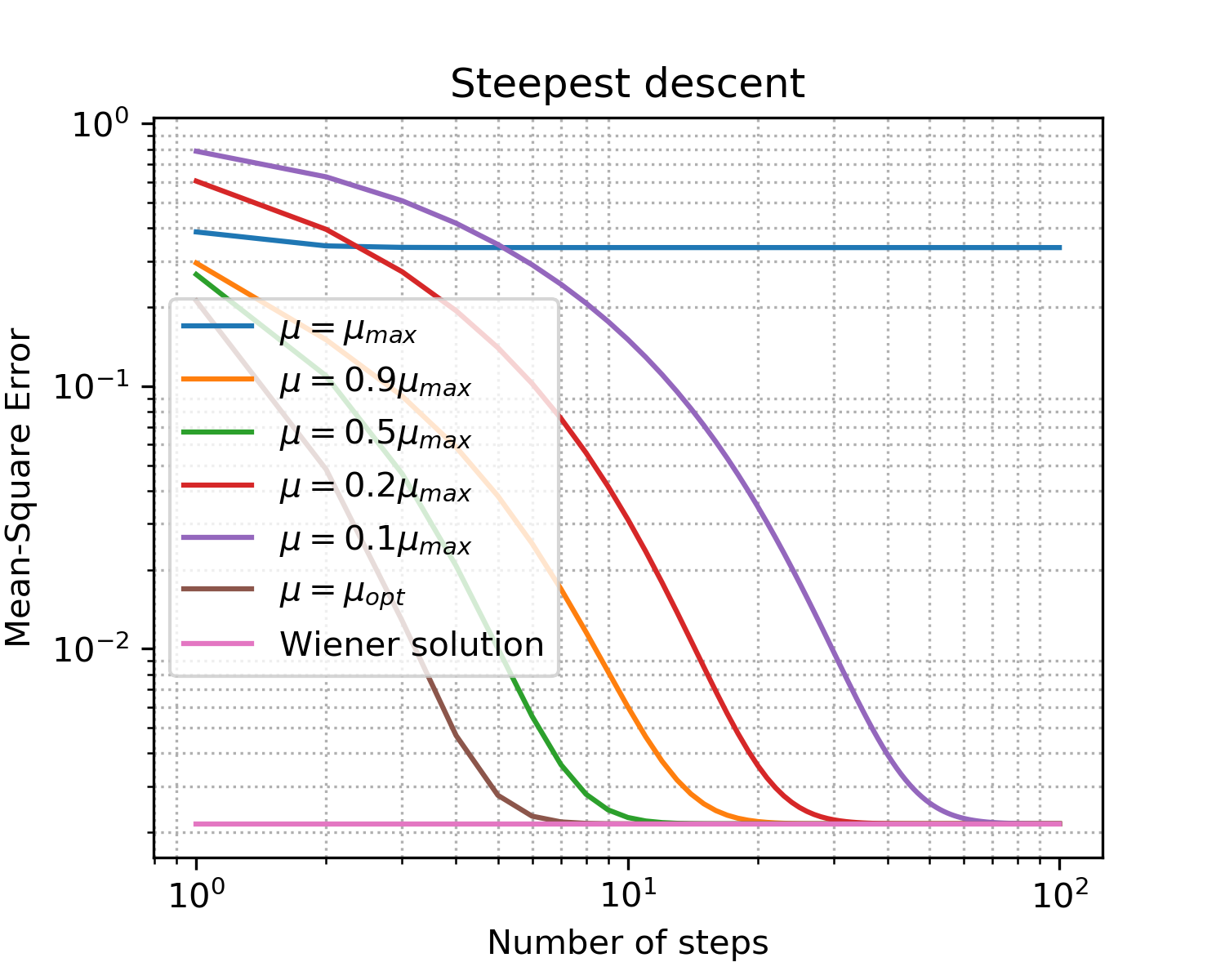 Developed according to [1].